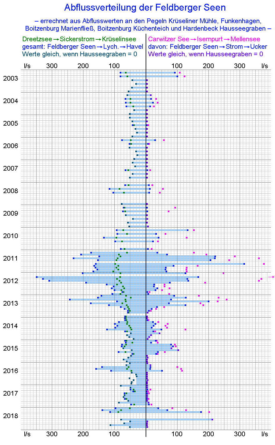 Distribution of the water discharge from the Feldberger Seen (group of lakes near Feldberg in the municipality of Feldberger Seenlandschaft) to various waterways and finally the rivers Havel and Ucker/Uecker.